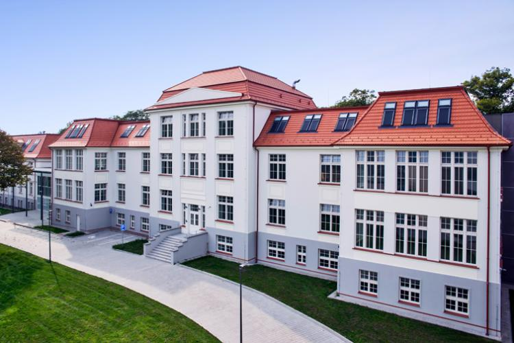 Faculty of Arts